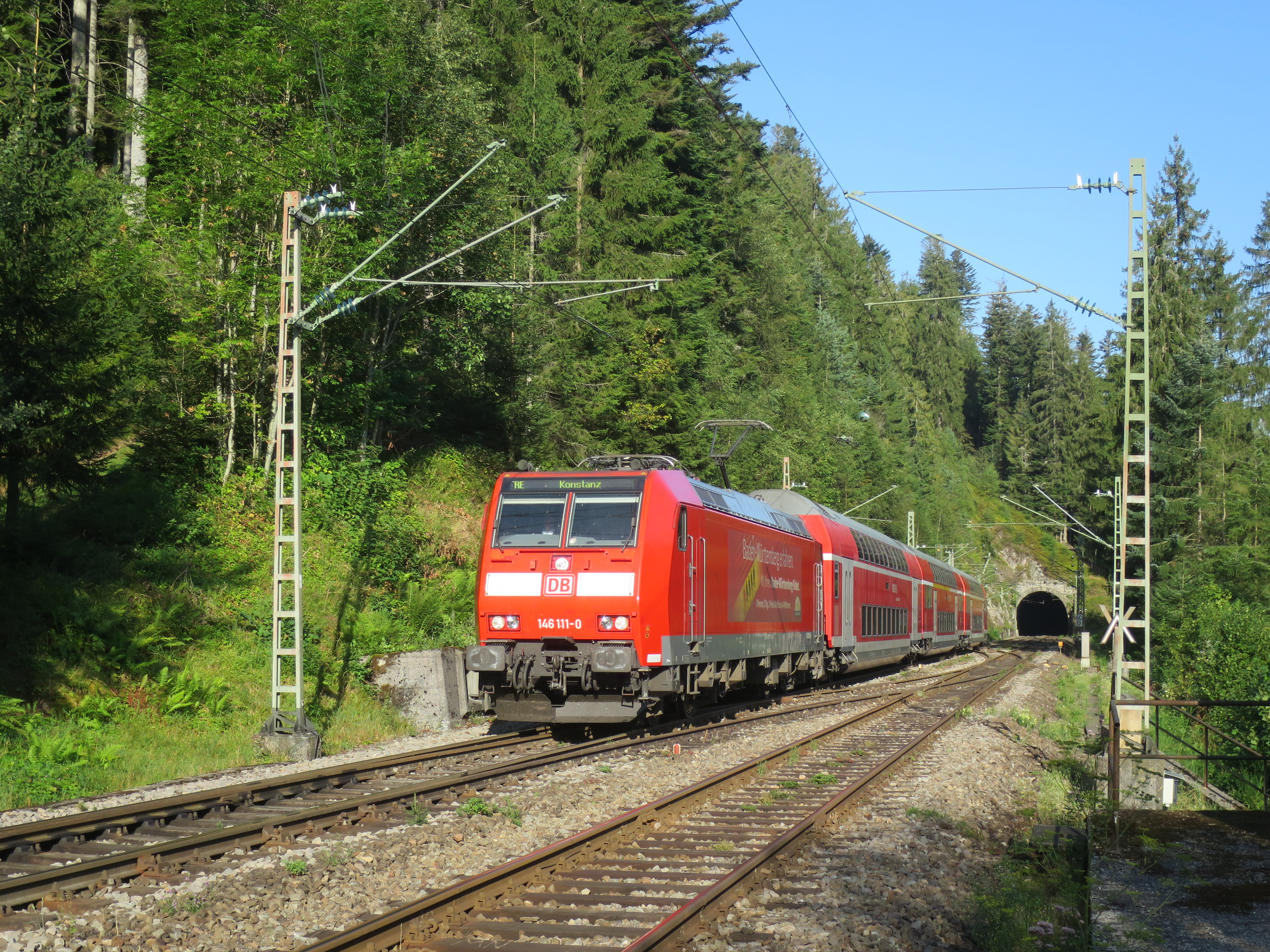 Schwarzwaldexpress